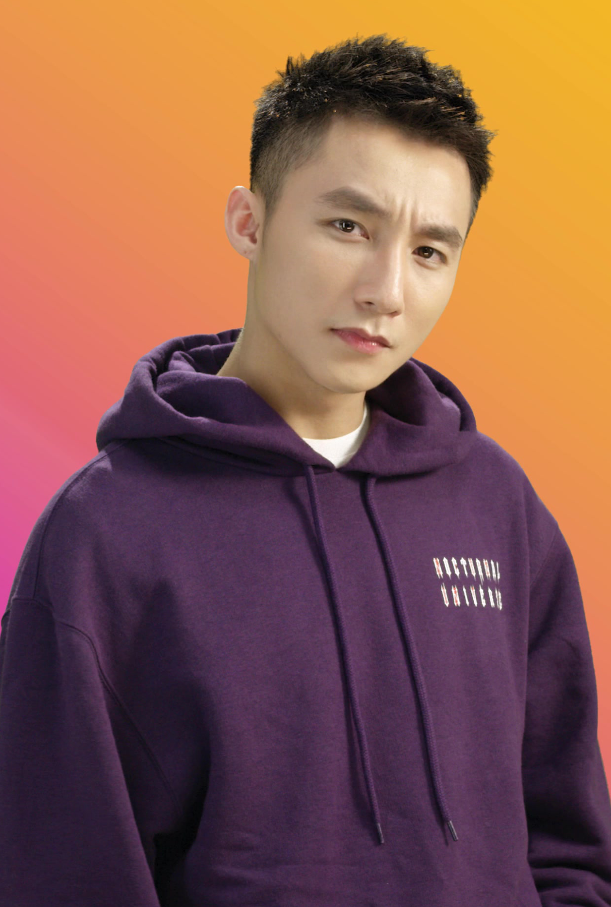 Vietnamese singer Sơn Tùng M-TP in a promotional video for Viettel.